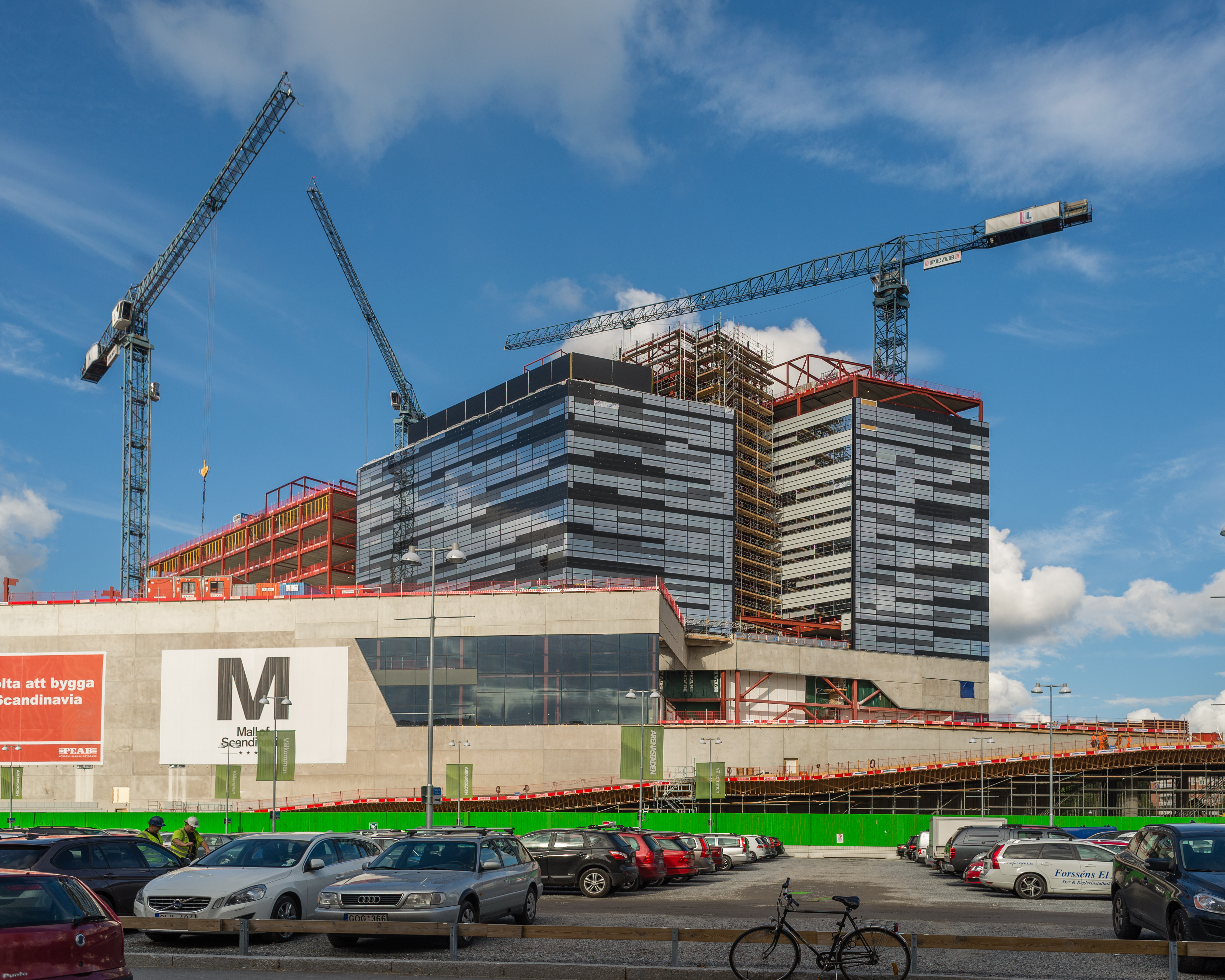 The new shopping mall "Mall of Scandinavia" under construction in September 2014. Arenastaden, Solna (Stockholm).